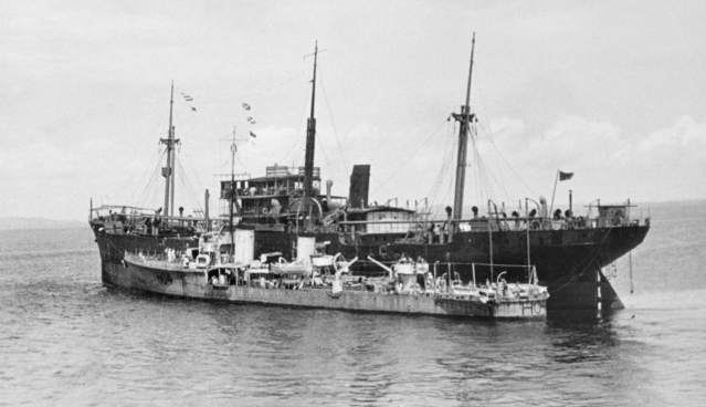 The British S-class destroyer (1917) HMS Tenedos (H.04) alongside the damaged merchant ship Norah Mollar, Banka Strait, Netherlands East Indies, 3 February 1942. Taken from HMAS Hobart.